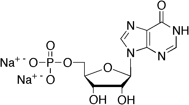 chemical structure of disodium inosinate